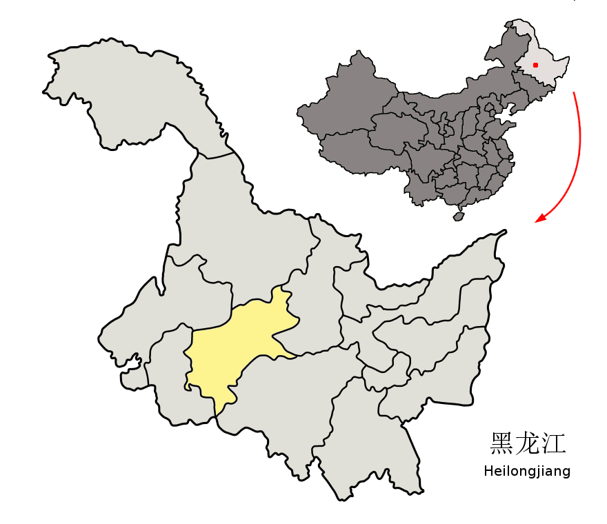 Location of Suihua Prefecture (yellow) within Heilongjiang Province of China Map drawn in november 2007 using various sources, mainly : Heilongjiang Province administrative regions GIS data: 1:1M, County level, 1990 Heilongjiang Counties map from